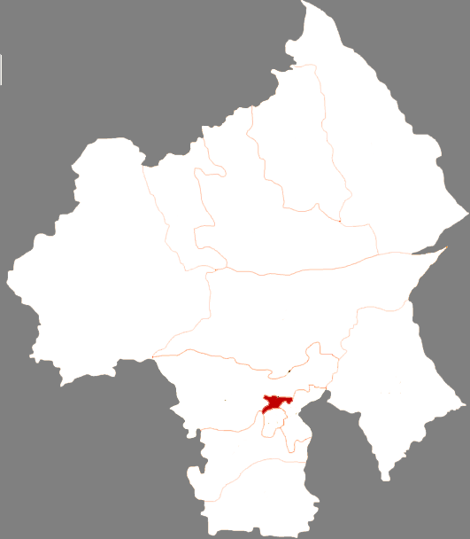 Location of Hongshan districtr in Chifeng City, China